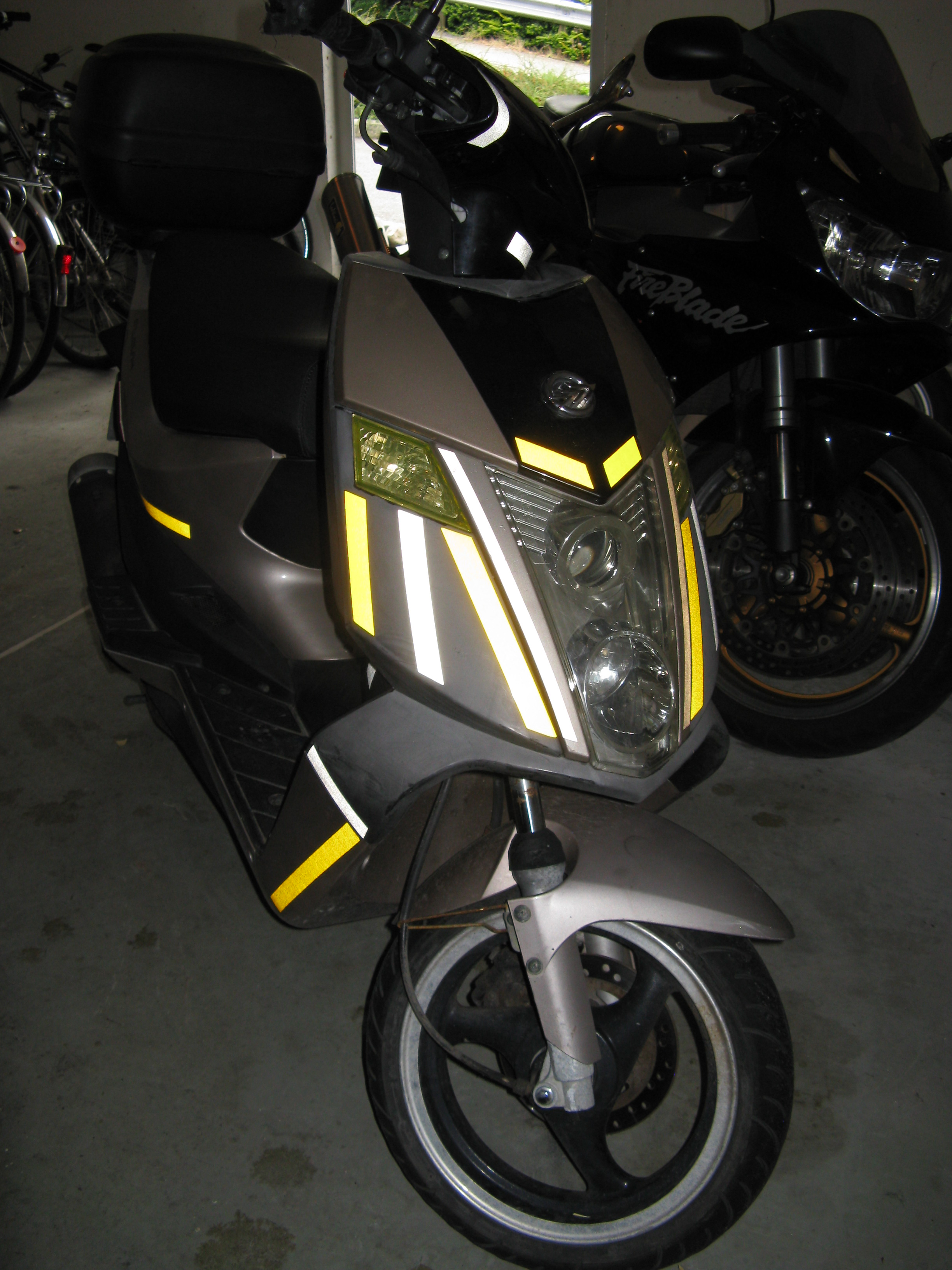 Retroreflective sheeting on a moped/scooter